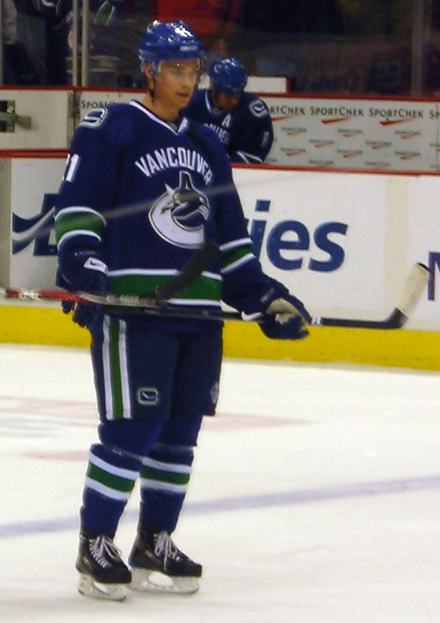 Vancouver Canucks forward Mason Raymond warming up prior to a game against the Colorado Avalanche on March 15, 2009.